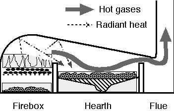 Diagram was created on 2005 May 05 by the uploader (Mrnatural) for a Wikipedia article.